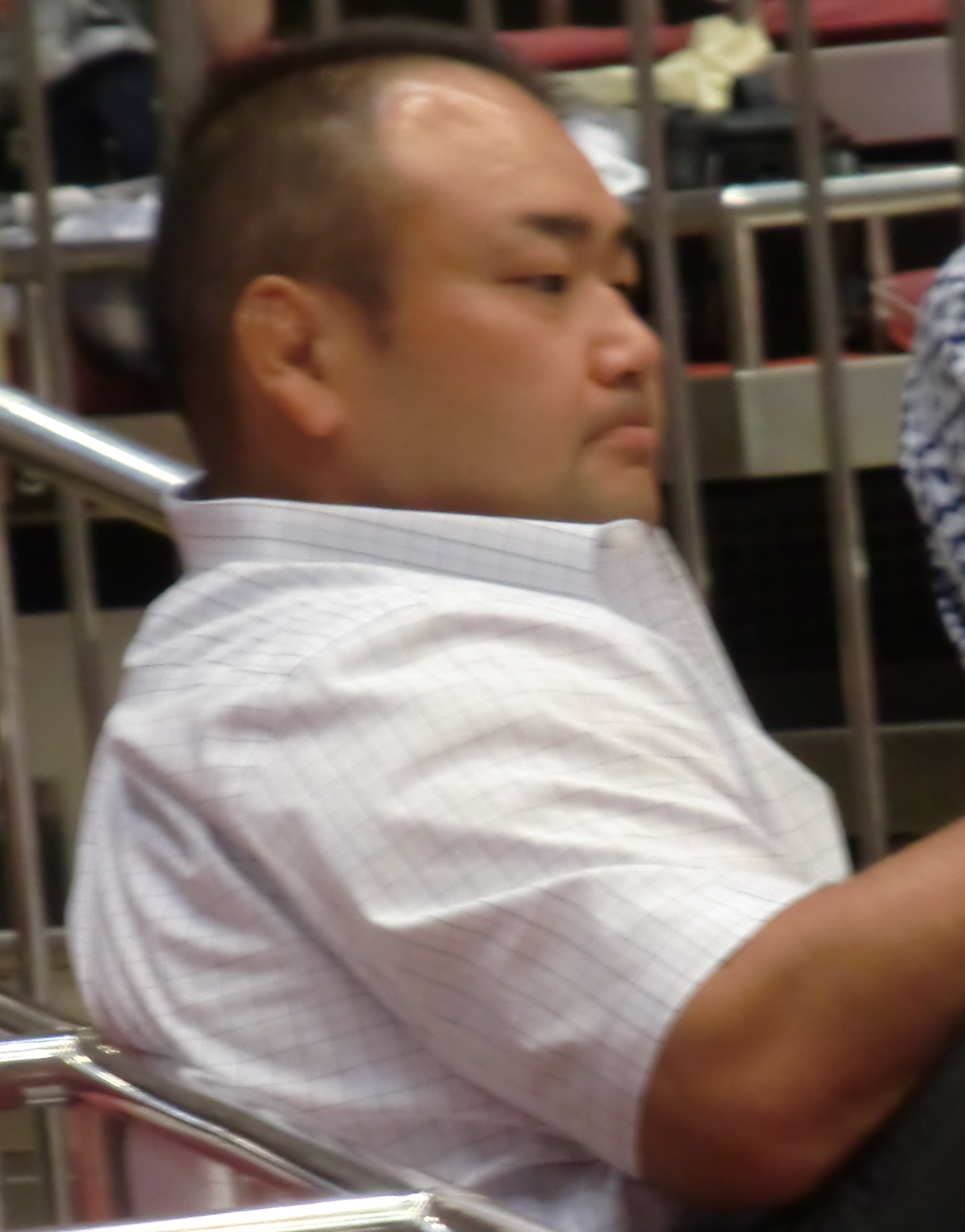 taken at Sept 2011 tournament